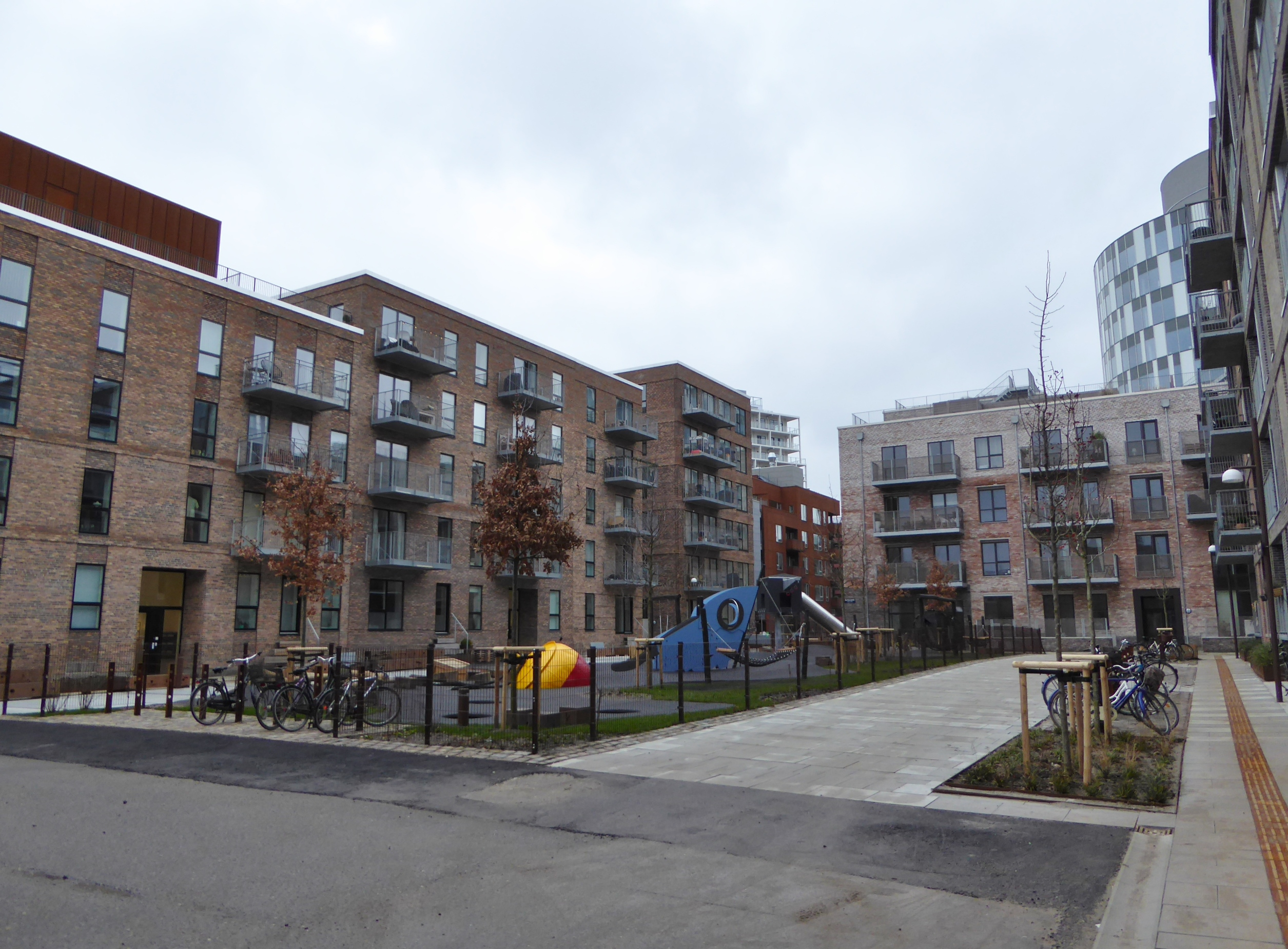 Square with playground in Antwerpengade in Nordhavn in Copenhagen. At the left the apartment building Kajplads 109.